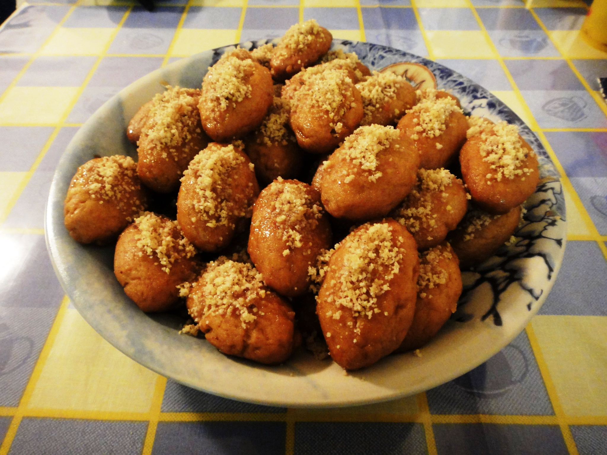 Homemade Greek Melamokarona, a traditional Christmas dessert.